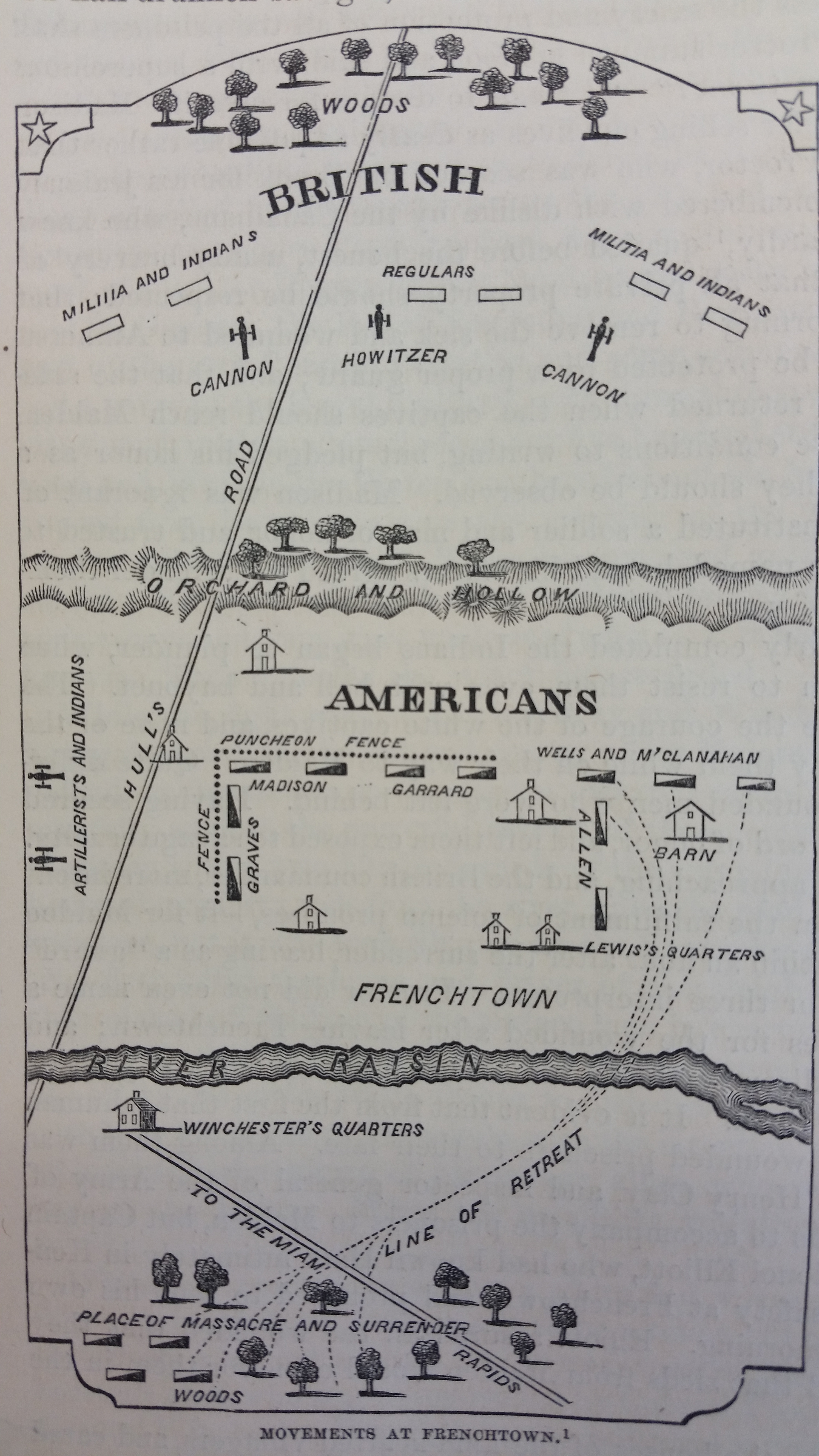 Battle of Frenchtown